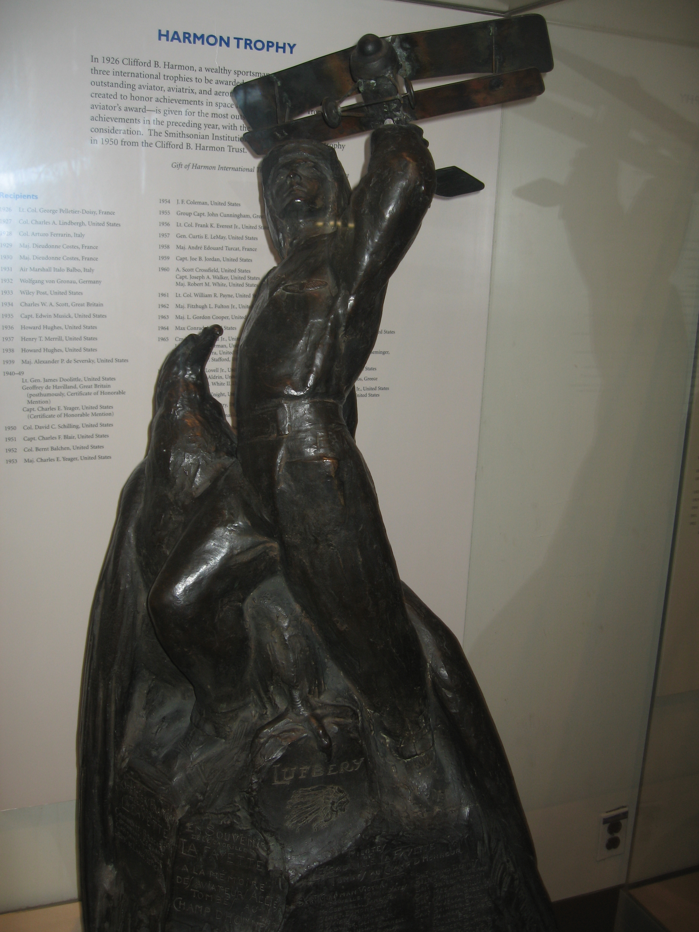 The Harmon Trophy on display at the National Air and Space Museum